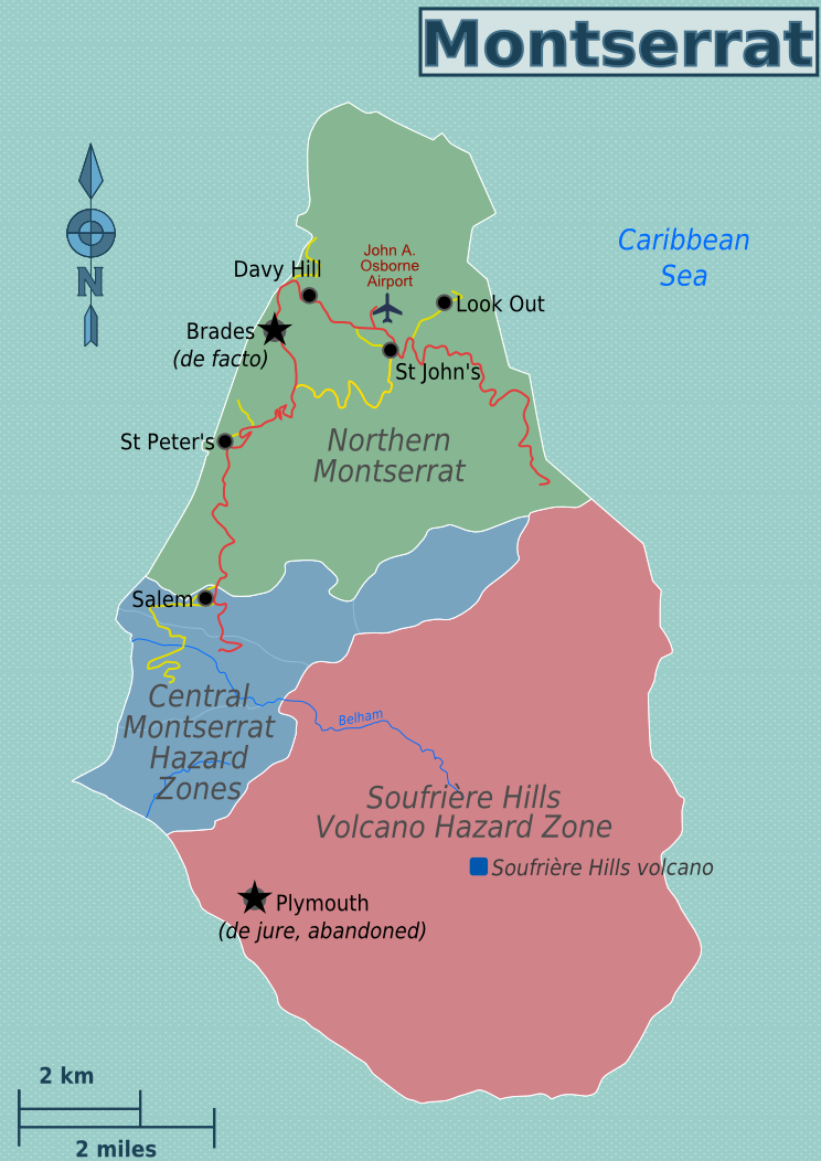 Map of Montserrat